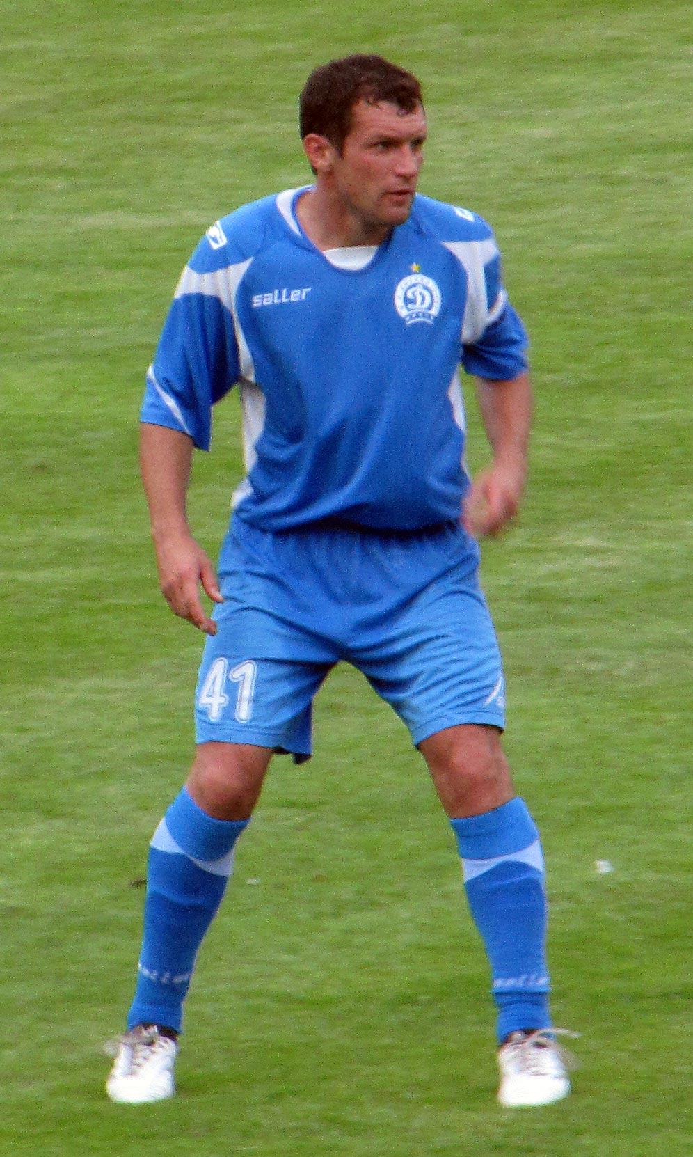 Belarusian footballer Sergei Gurenko at a match against Tromsö IL in Minsk, Belarus.